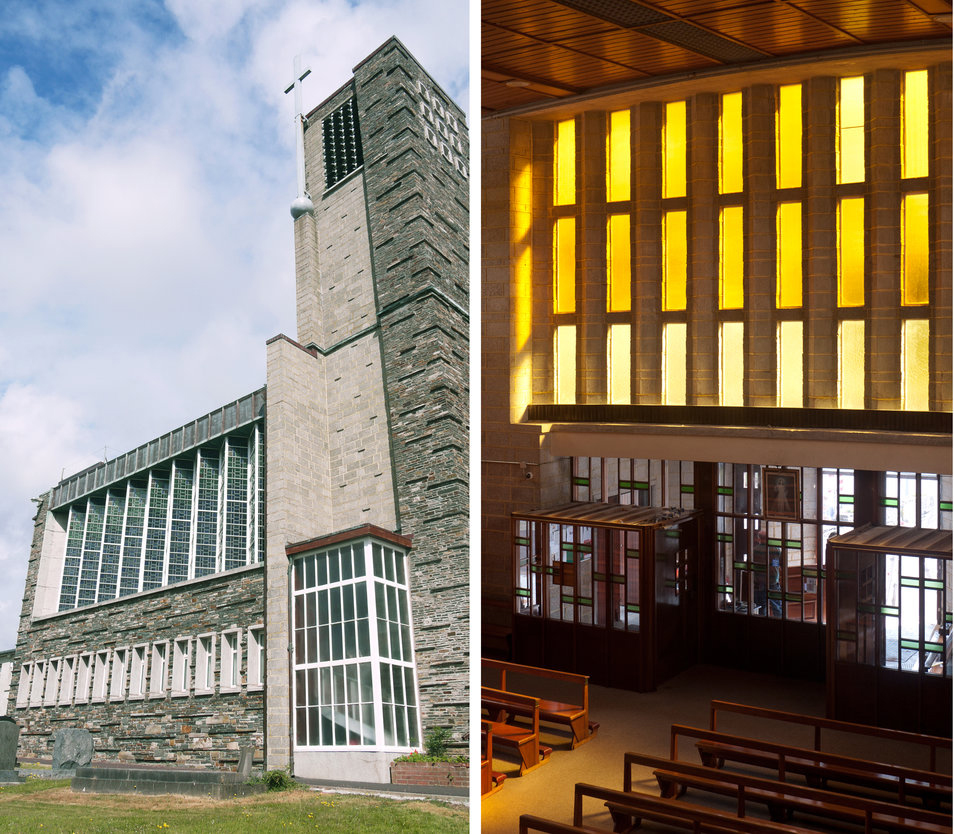 All Saints Church, Drimoleague, West Cork 1953-1956. Exterior Photo of South Stained Glass Windows by Harry Clarke Studios. Internal Image of Rear Narthex and stained glass.